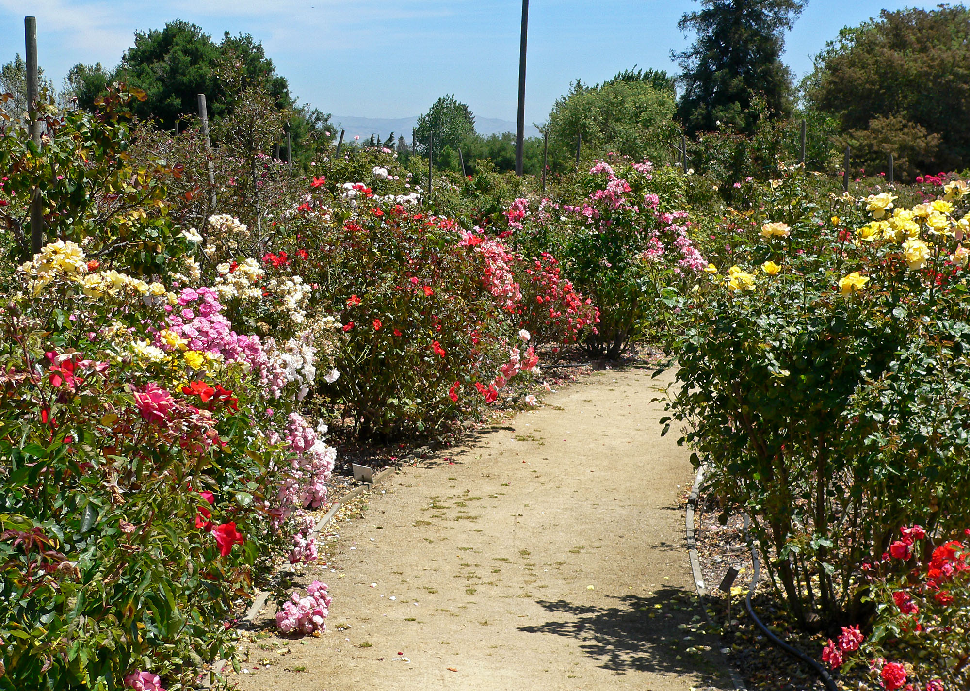 San Jose Heritage Rose Garden, San Jose, California